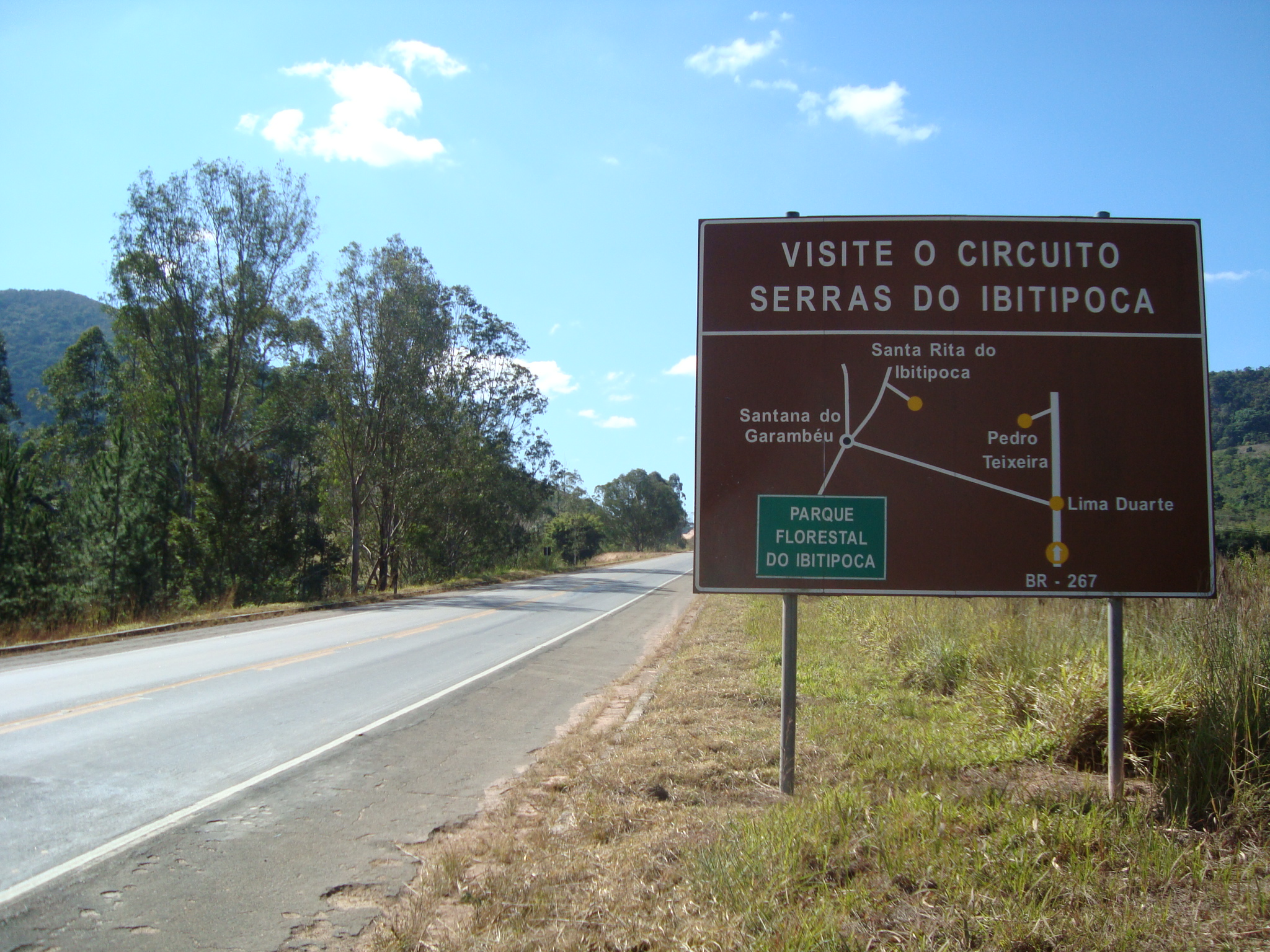 Road sign to Ibitipoca State Park in Minas Gerais, Brazil. The sign os located in the municipality of Olaria, by road BR-267